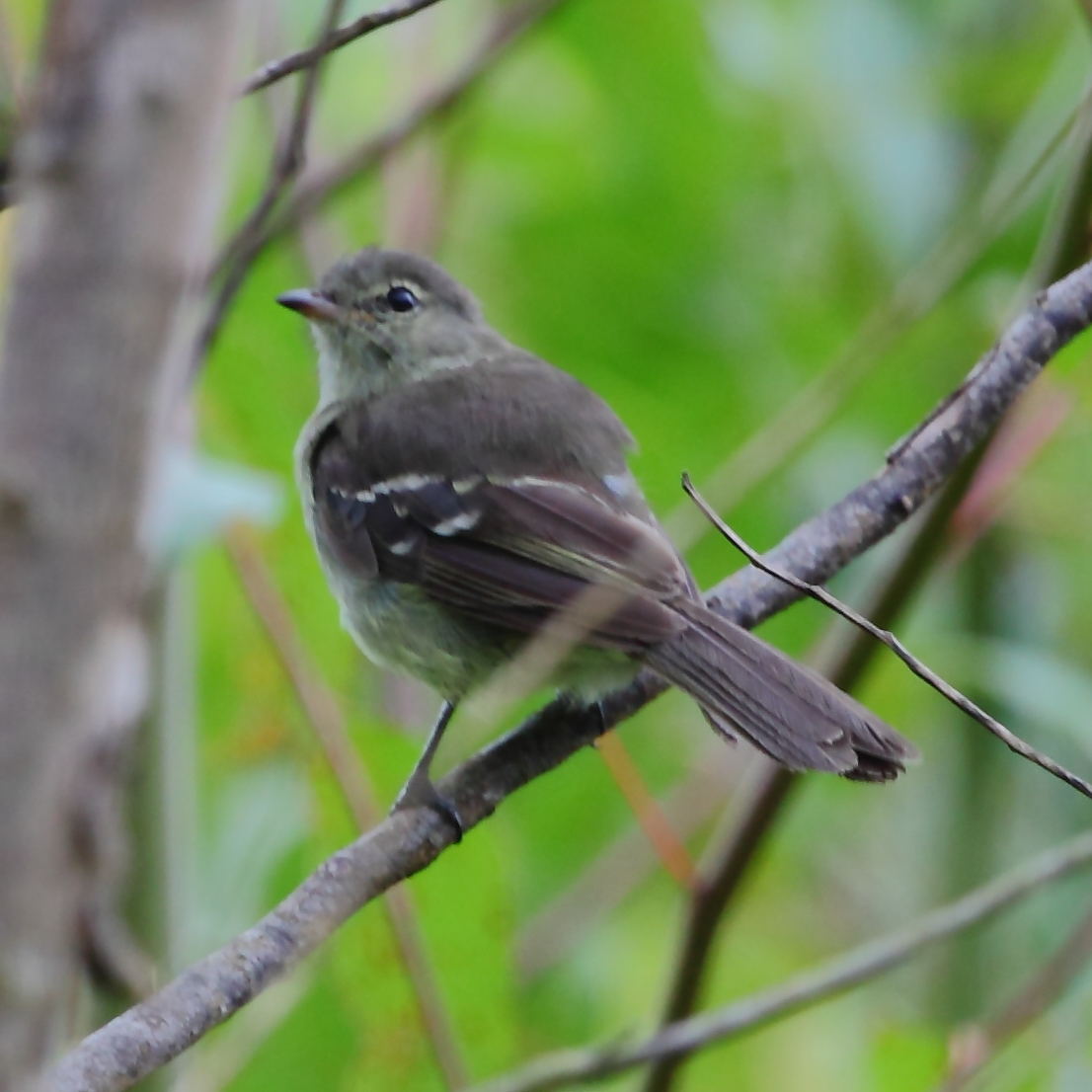 Elaenia obscura_Highland Elaenia at São Luiz do Paraitinga - SP - Brazil